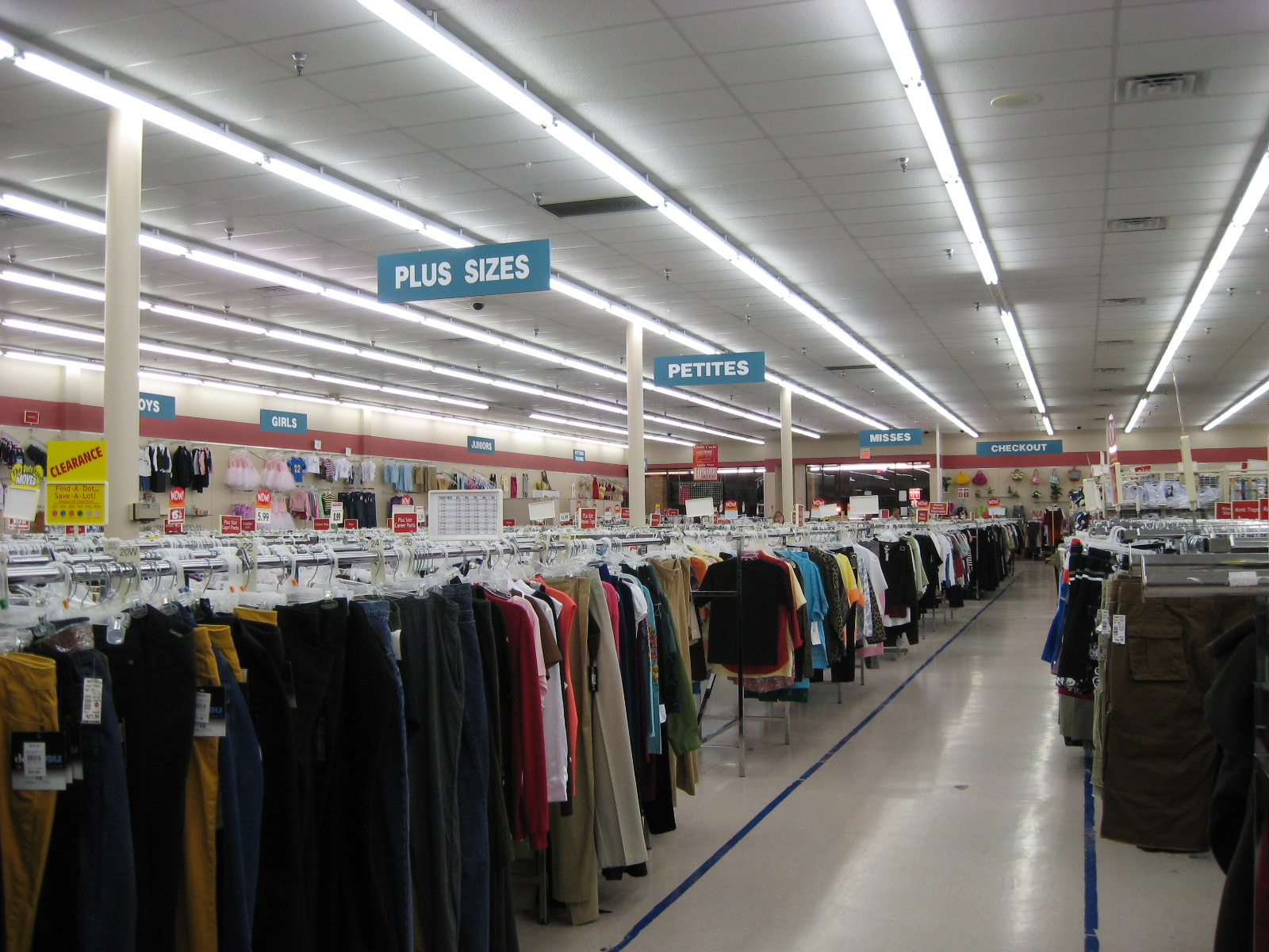 A Burkes Outlet Store in Picayune, MS